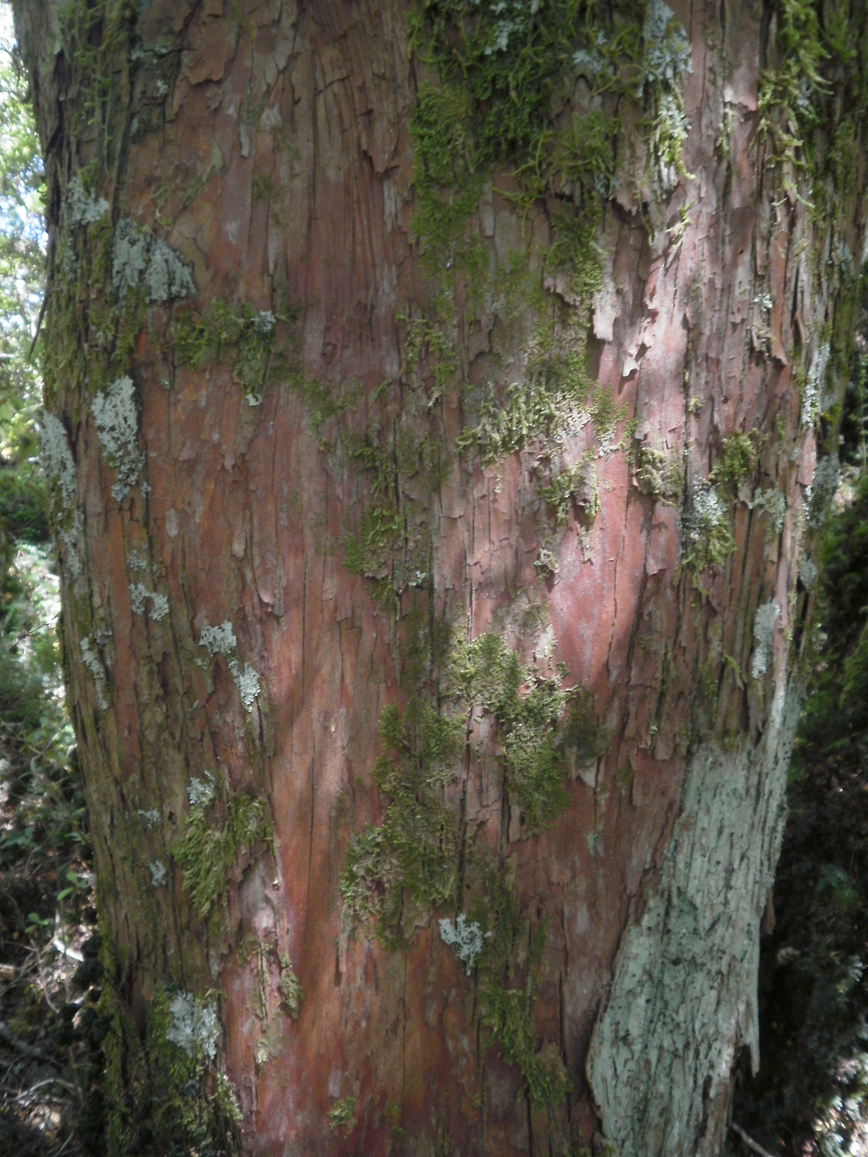 Podocarpus cunninghamii, Hall's totara trunk bark, Mount Holdsworth track, Tararua Ranges, New Zealand.